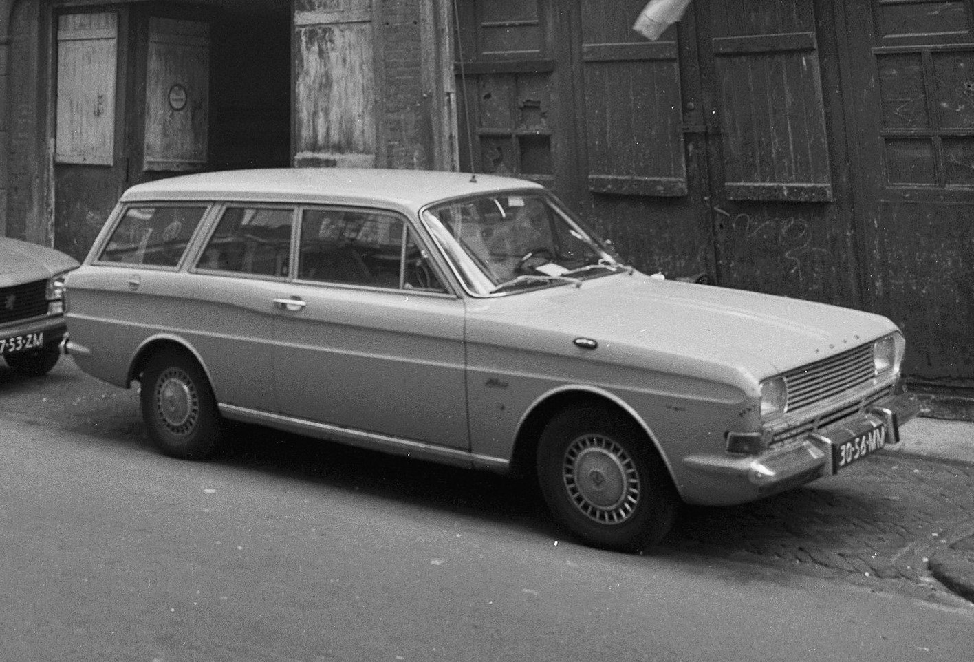 A Ford Taunus P6 15m Turnier in Amsterdam.